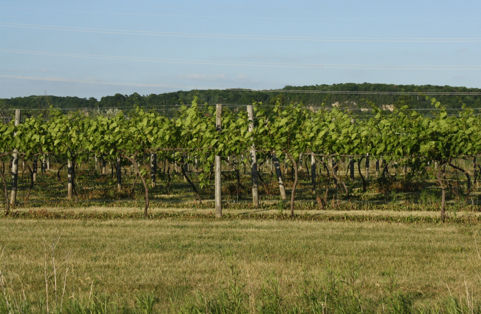 Grape vines in the Wisconsin Ledge AVA in southern Brown County along Wisconsin Highway 57/32. The trees in the background indicate the top of the Niagara Escarpment locally referred to as "The Ledge".